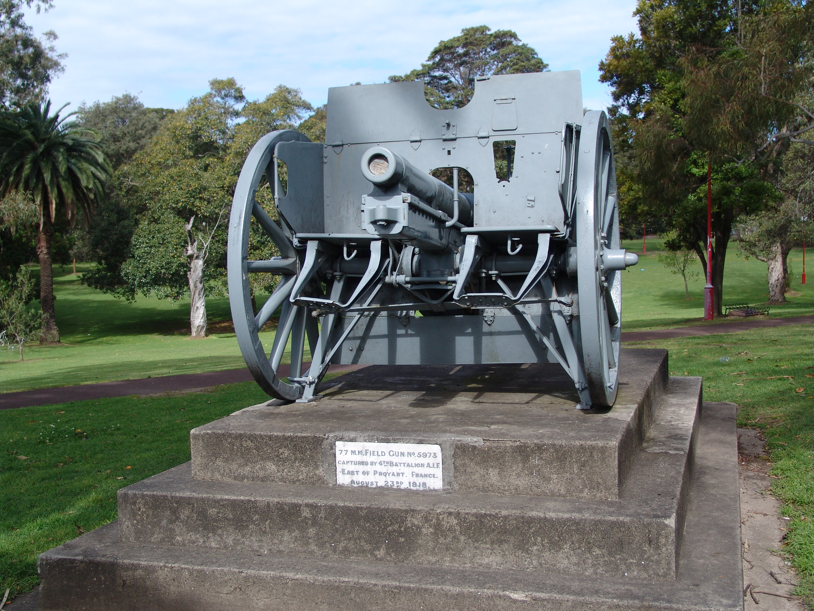 WWI German Field Gun in North Sydney. The State War Trophy Committee allocated the gun to North Sydney Council in 1921. It was unveiled by Major-General Sir Granville Ryrie. [1] The plaque reads: 77MM Field Gun No.5973 captured by 4th Batallion A.I.F. East of Proyart, France. August 23rd 1918.